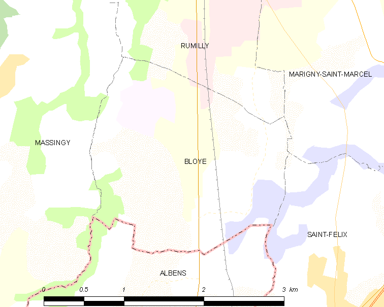 Map of French municipality Bloye